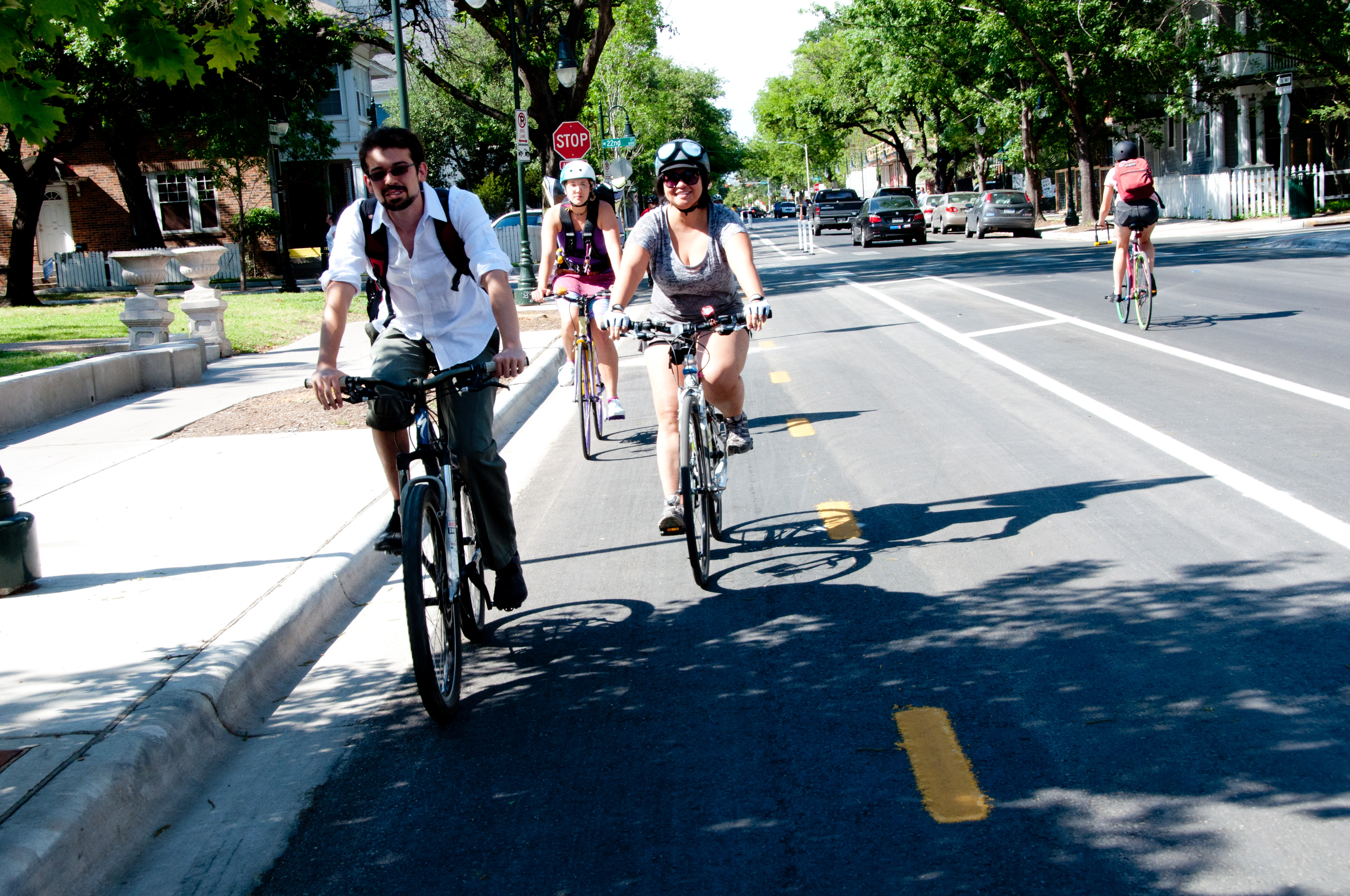 City council members and Austin-area bicycle activists cut the ribbon to officially open a new bike lane on Rio Grande Street as part of the city's Green Lane Project designed to help implement new cycling networks around Austin.